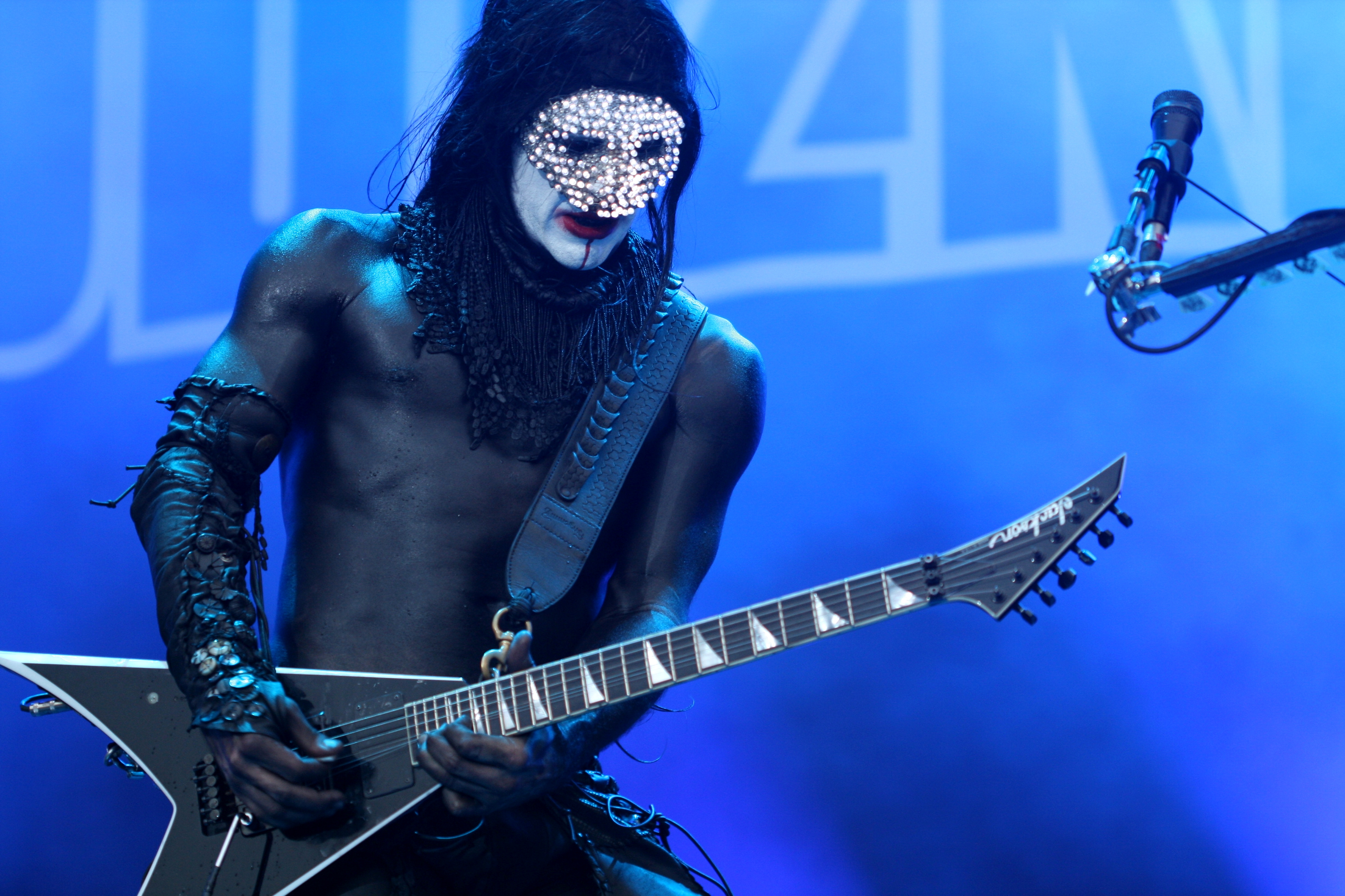 Wes Borland, guitarist of Limp Bizkit, on the Alterna Stage of Rock im Park-Festival 2013. Festivalsommer This photo was created with the support of donations to Wikimedia Deutschland in the context of the CPB project "Festival Summer".